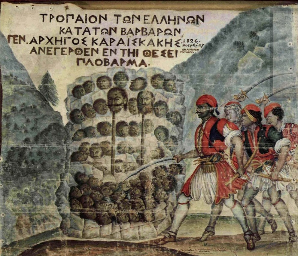 Tower of severed heads of ottoman soldiers raised by Georgios Karaiskakis after the battle of Arachova, 1826.